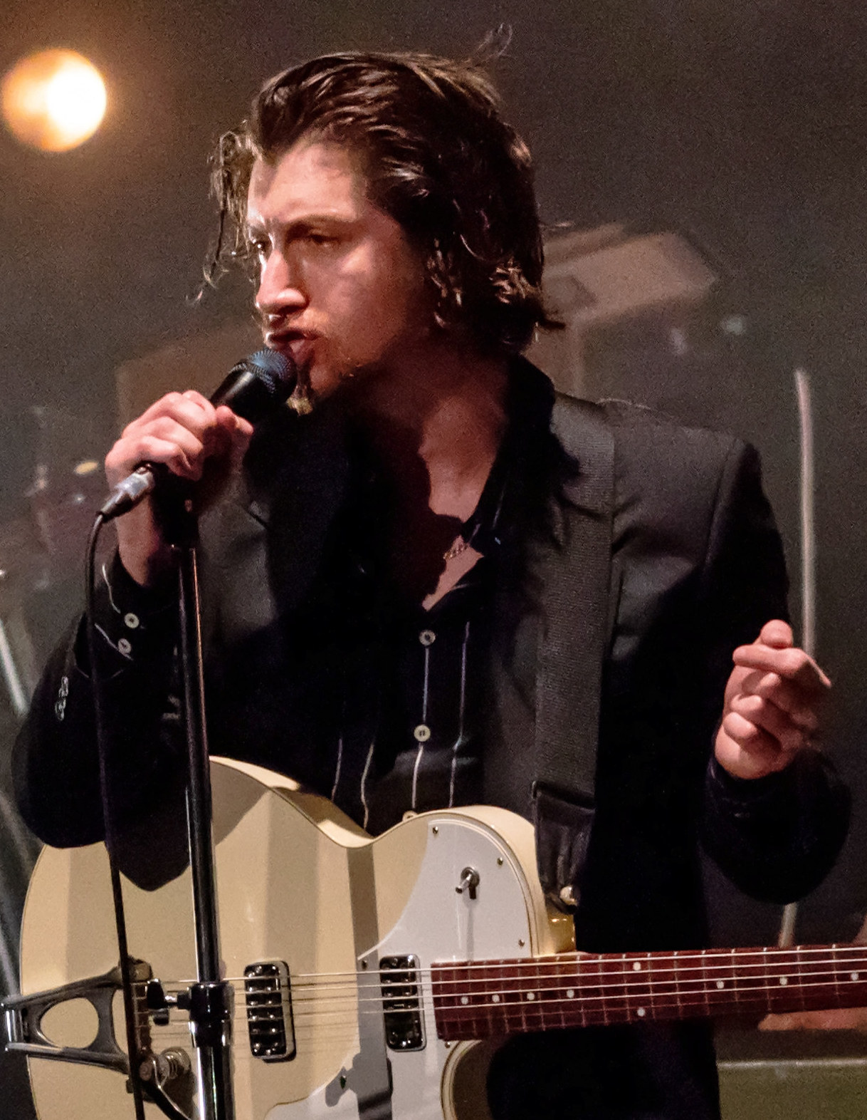 Alex Turner performing with Arctic Monkeys at the Royal Albert Hall in London, 2018